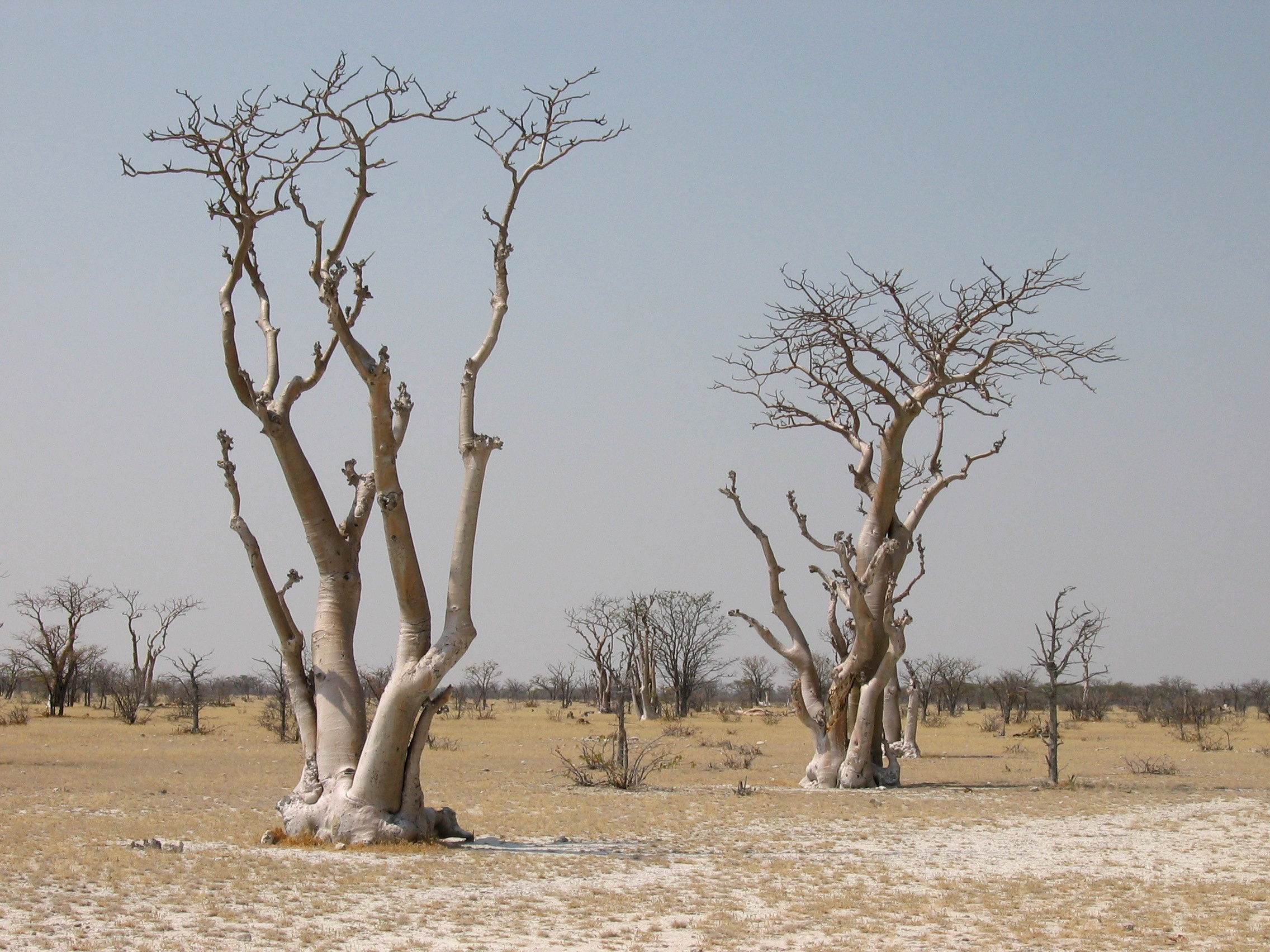 Moringa trees, Sprokieswoud, Etosha, Namiba